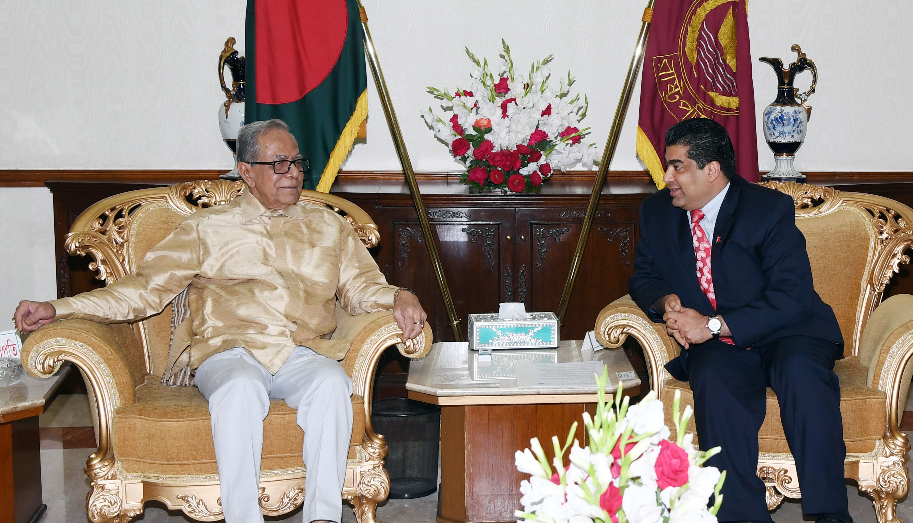 Ek Nath Dhakal meeting Bangladeshi President Mohammad Abdul Hamid in Dhaka